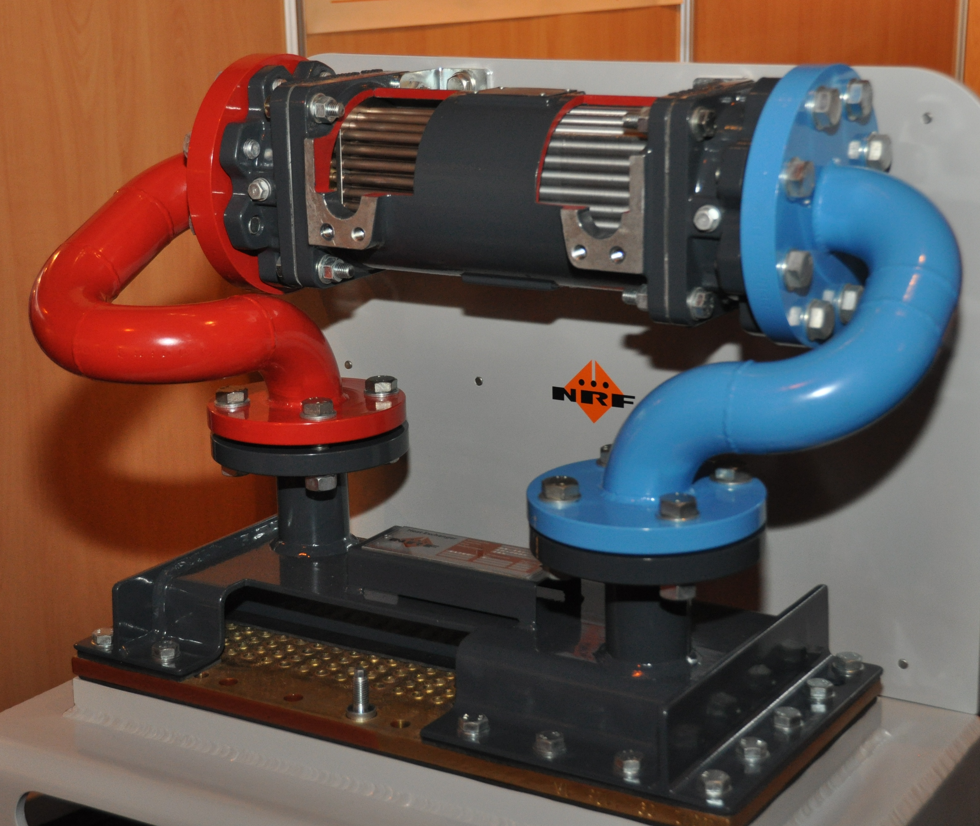 Construction & shipping industry 2010